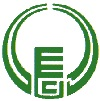 Emblem of Chonan, Chiba